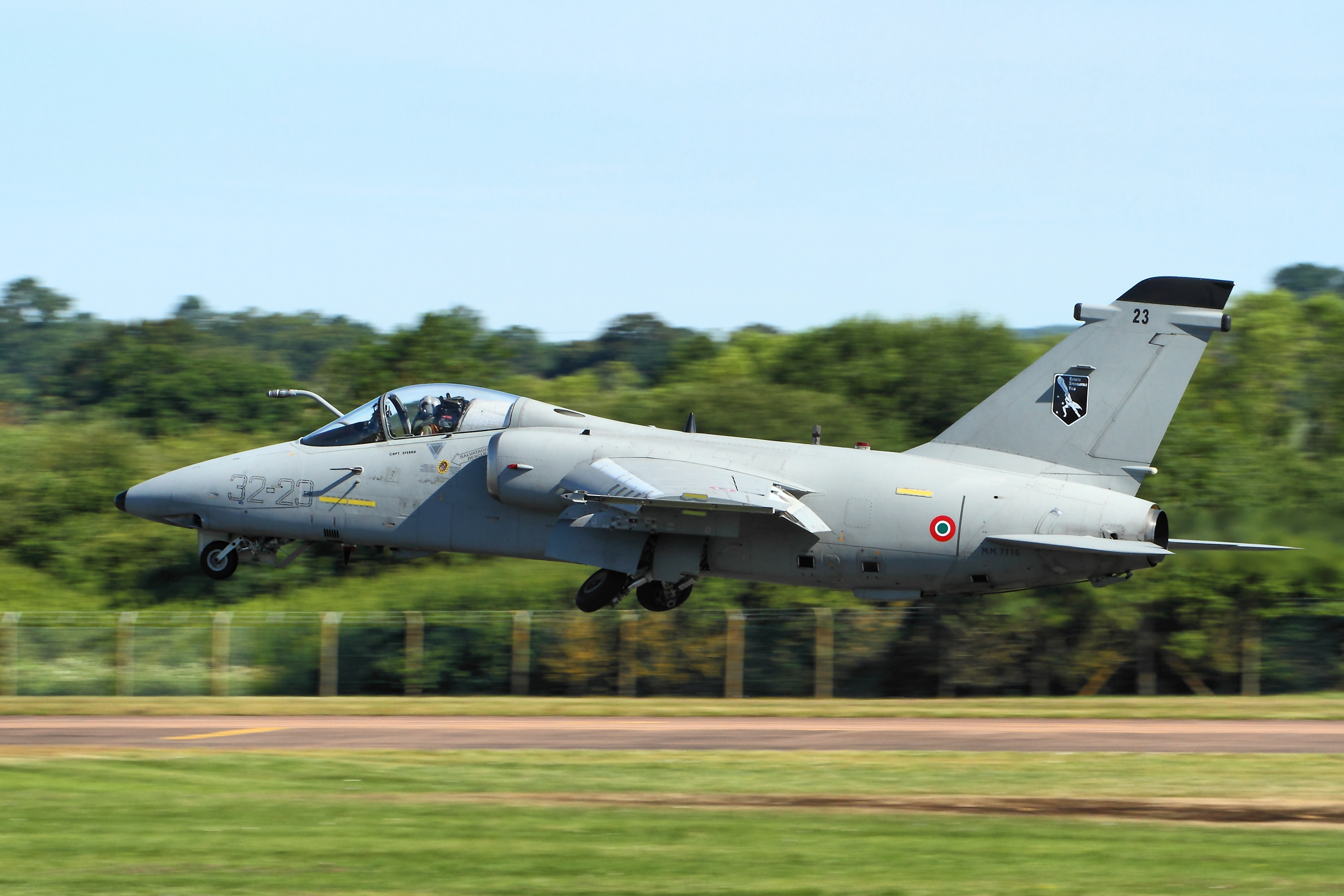 AMX International A-11 - RIAT 2014